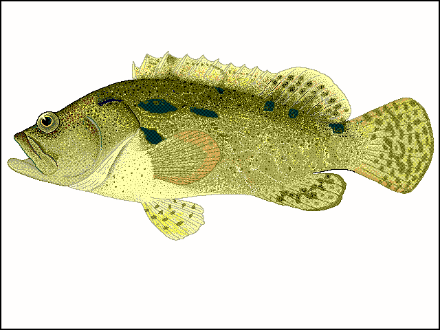 Epinephelus fuscoguttatus This is a drawing by former FishBase staff member Robbie N. Cada. Drawings done by Robbie Cada are public domain and can be used freely, however, FishBase would appreciate a proper indication of the source.